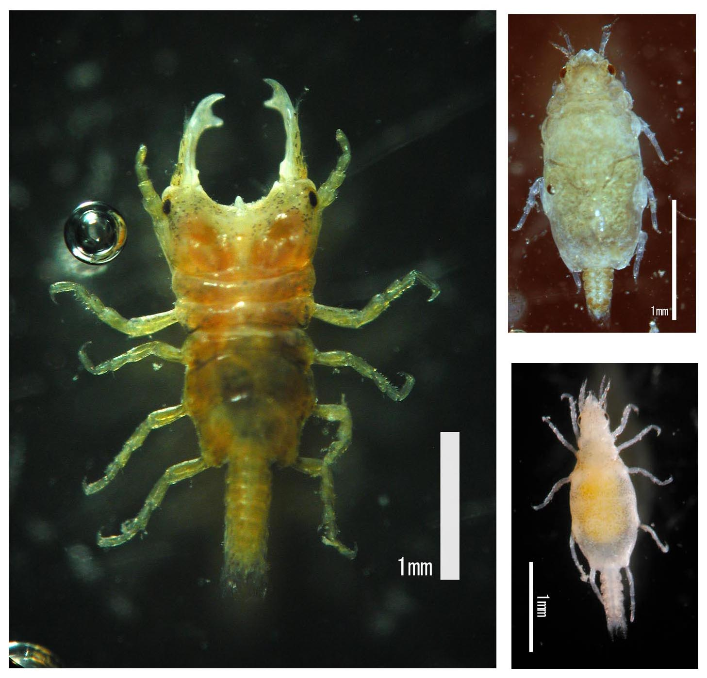 Gnathiid isopods: left – adult male, right top – adult female, right bottom — juvenile stage engorged with blood (praniza).